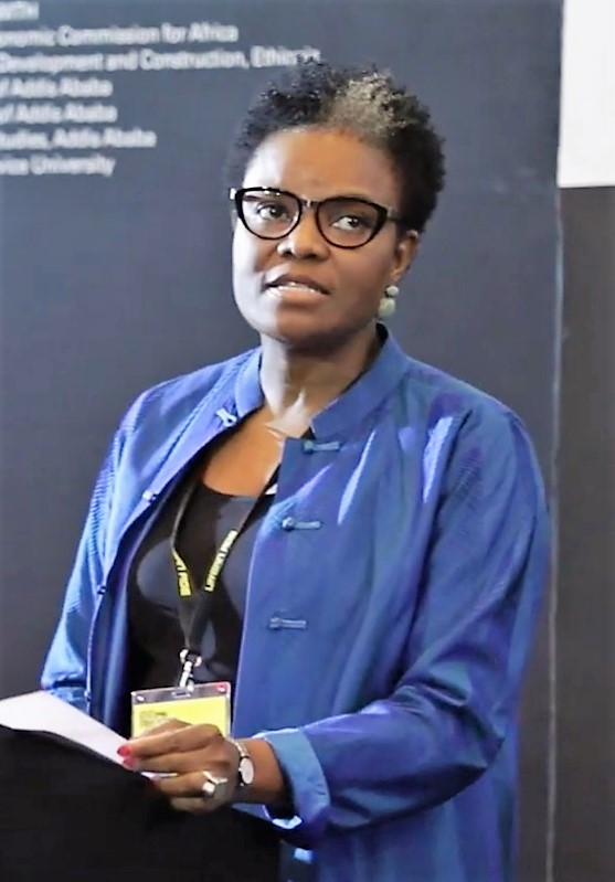 Urban Age Developing Urban Futures: Alcinda Honwana - Challenges for young Africa